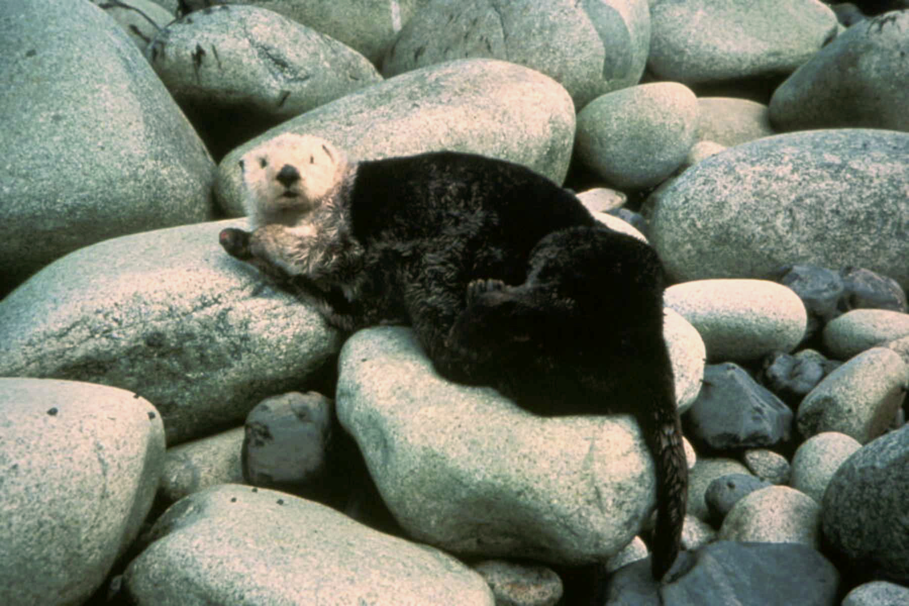 Image title: Sea otter Image from Public domain images website